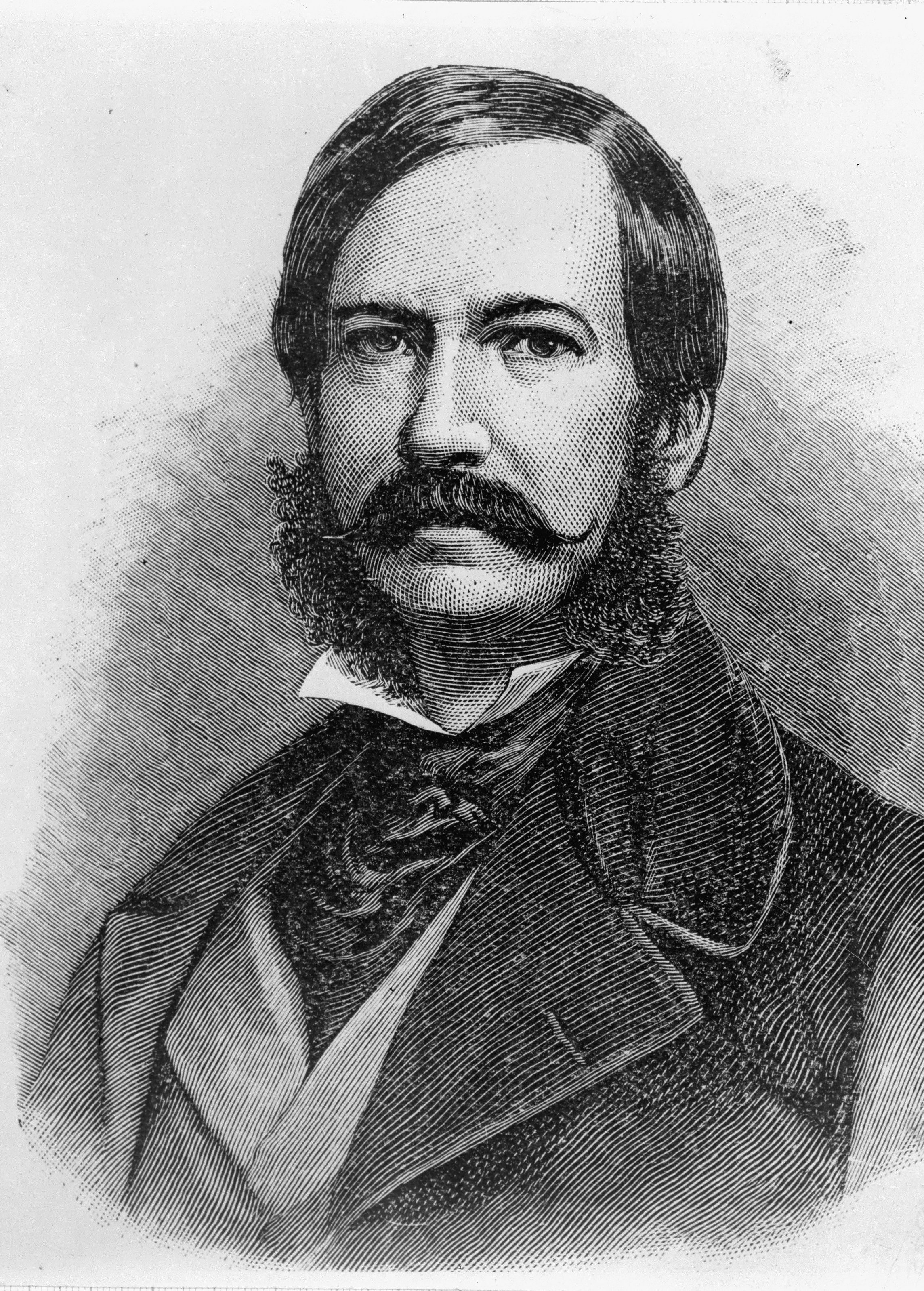 Head and shoulders frontal portrait of Edward Jerningham Wakefield from the frontispiece of his book Adventure in New Zealand, Christchurch, Whitcombe & Tombs, 1908 (First published in 1845).